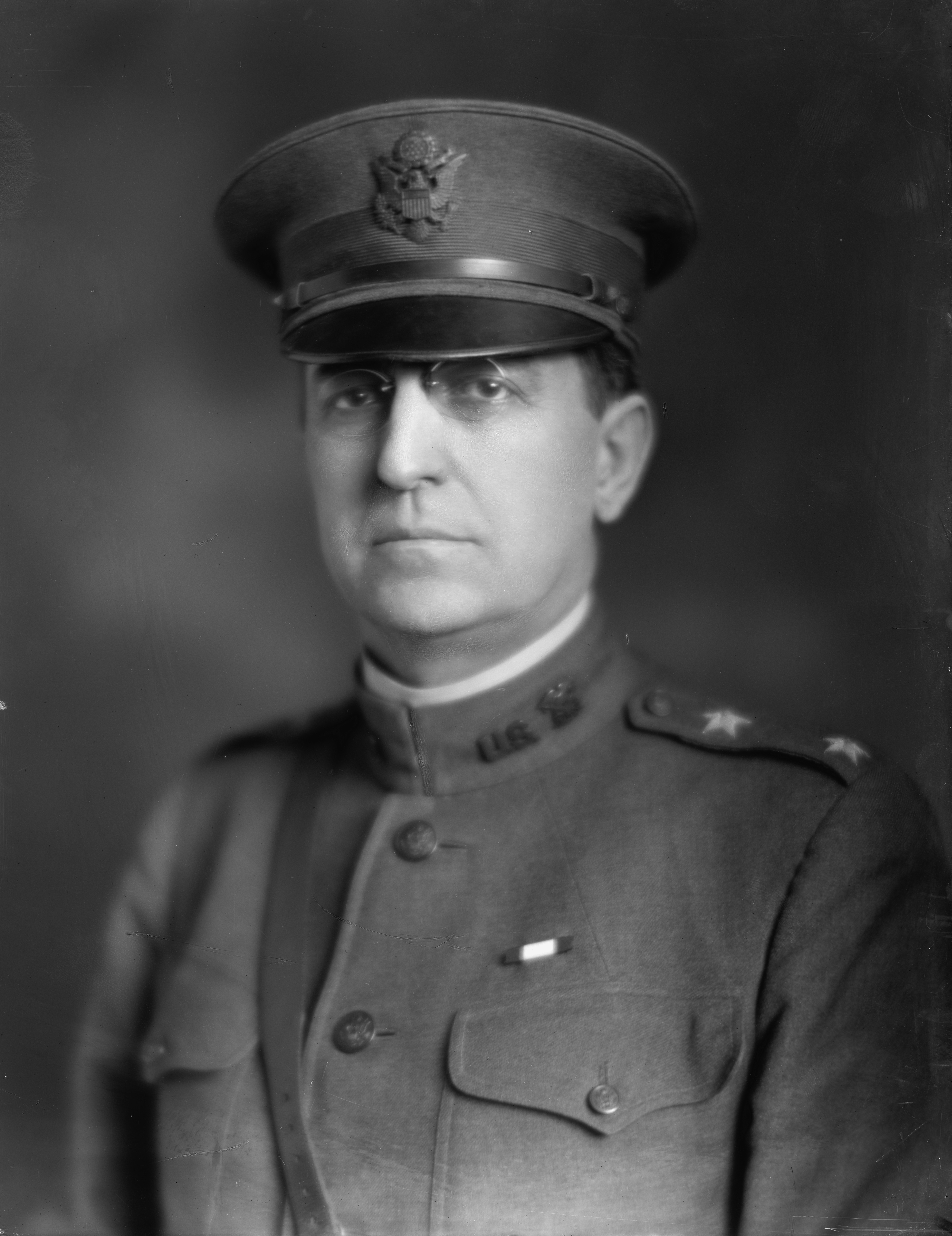 Major General Harry Lovejoy Rogers (1919)